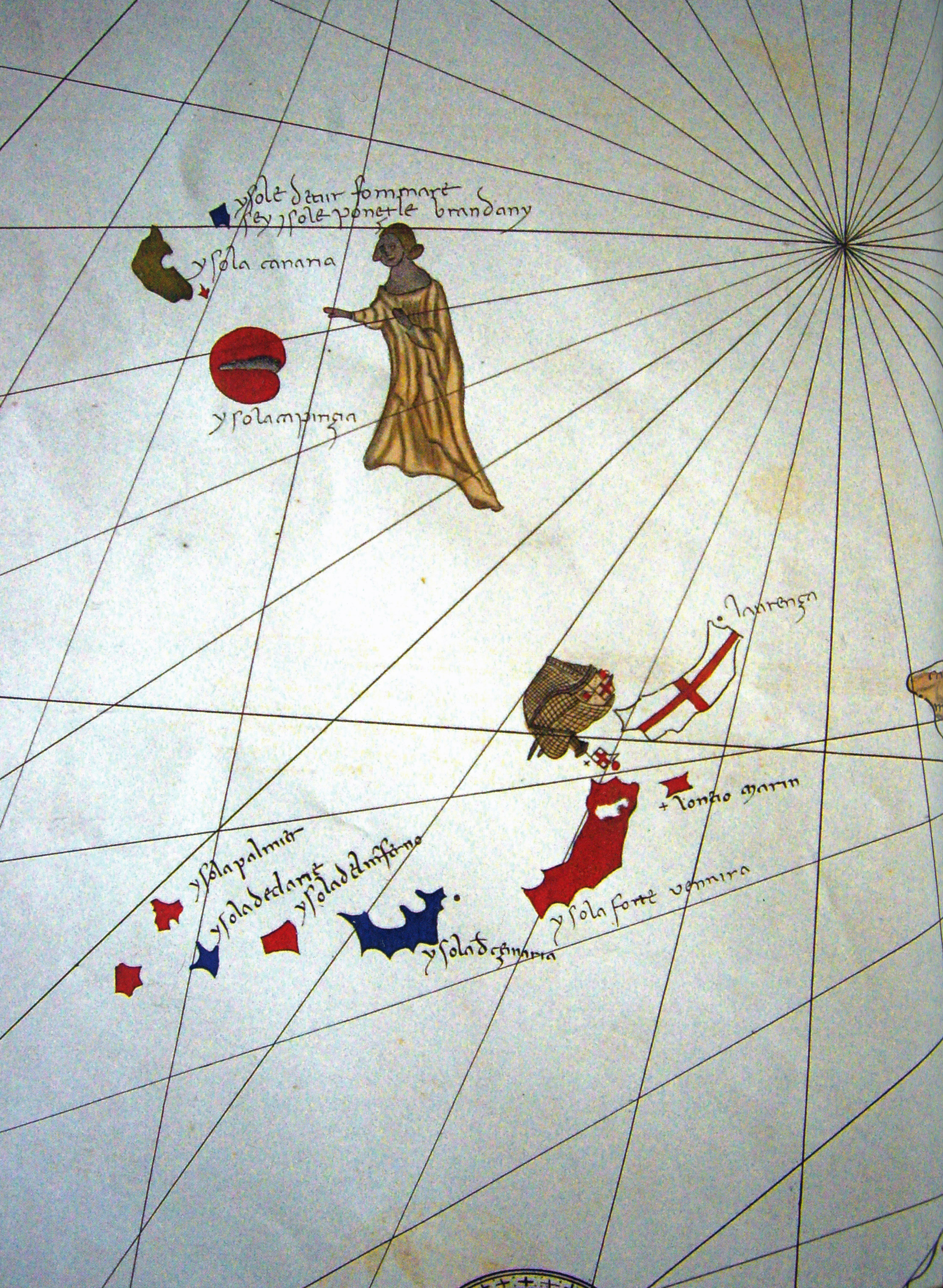 St. Brendan close to the island which bore his name depicted on a mediaeval map. On modern maps, there is no such island. It was supposed to have been located close to the Canary Islands.